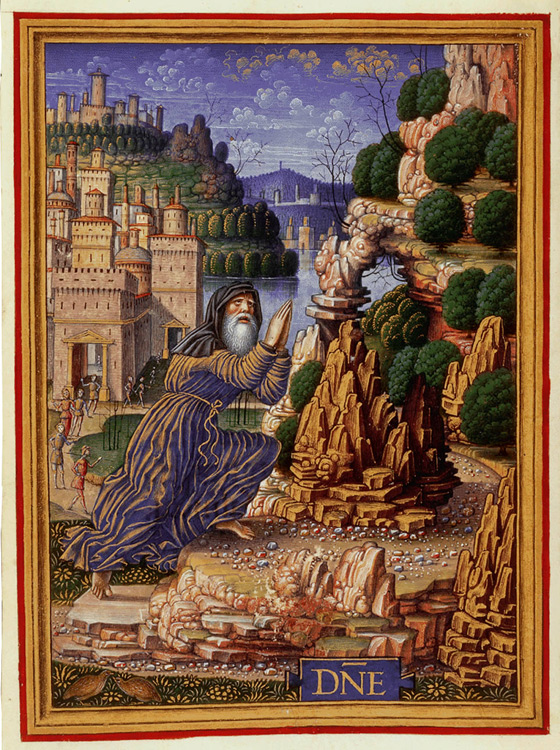 King David in Penitence, Sforza Hours (fol.233.r), c.1490, British Library Add. MS 34294